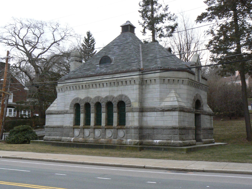 The gatehouse at the end of the Sudbury Aqueduct in Newton, Massachusetts, just above the Chestnut Hill Reservoir.